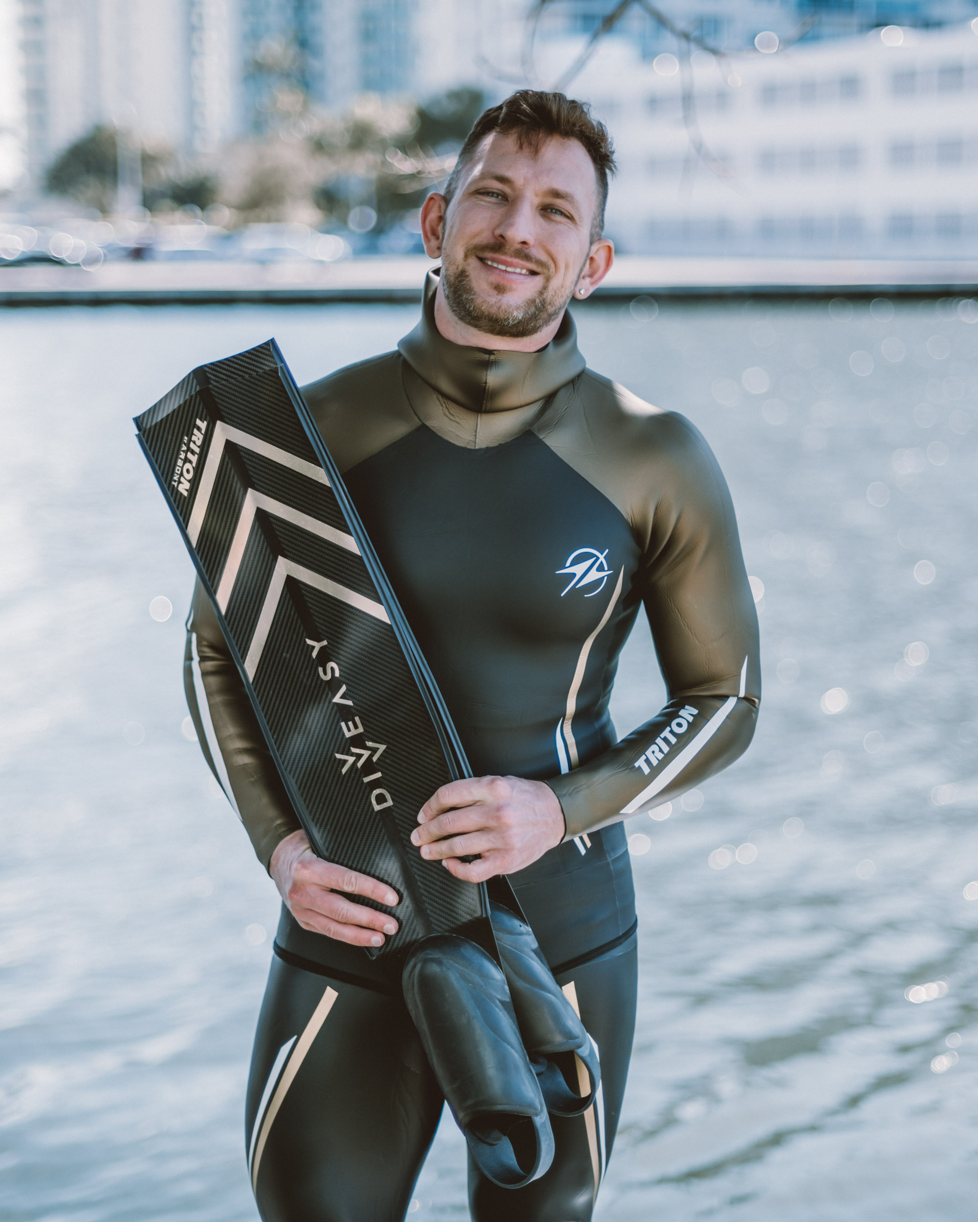 Andriy Khvetkevych in Hallandale Beach, FL